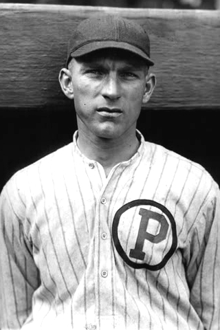 Major League Baseball player Frank Parkinson